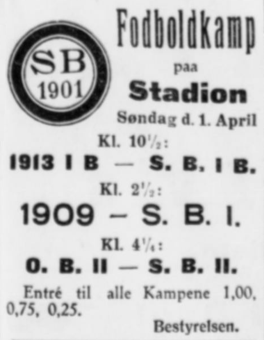 Advertisement for a 1927–28 FBUs Mesterskabsrække football match on 1 April 1928 - The text reads: Fodboldkamp paa Stadion : Søndag d. 1. April : Kl. 10½: 1913 I B - S. B. I B. : Kl. 2½: 1909 - S. B. I. : Kl. 4½: O. B. II - S. B. II. : Entré til alle Kampene 1,00, 0,75, 0,25. : Bestyrelsen. Featured in the advertisement is the logo of the defunct football club, Svendborg Boldklub.